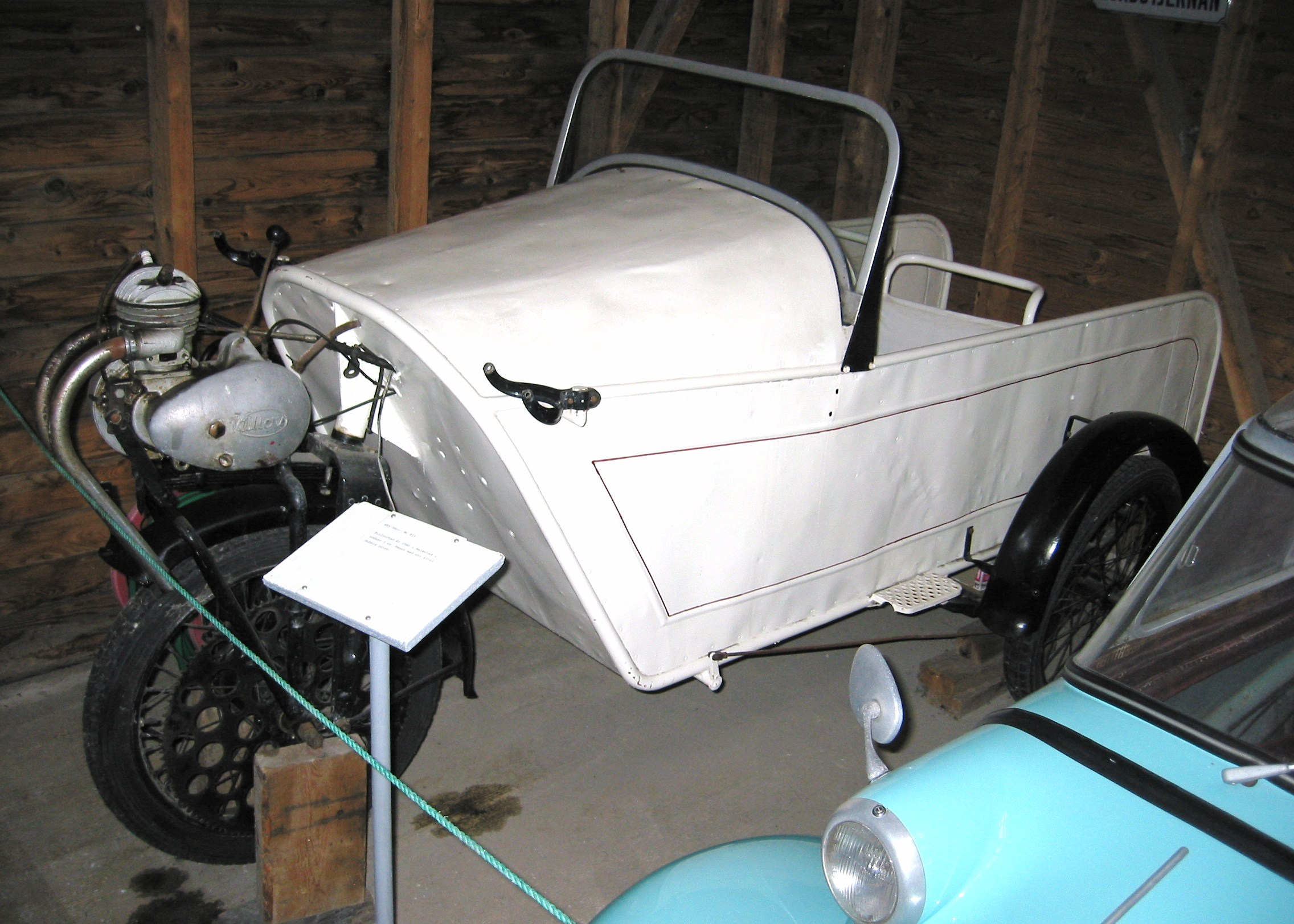 Rex 1940